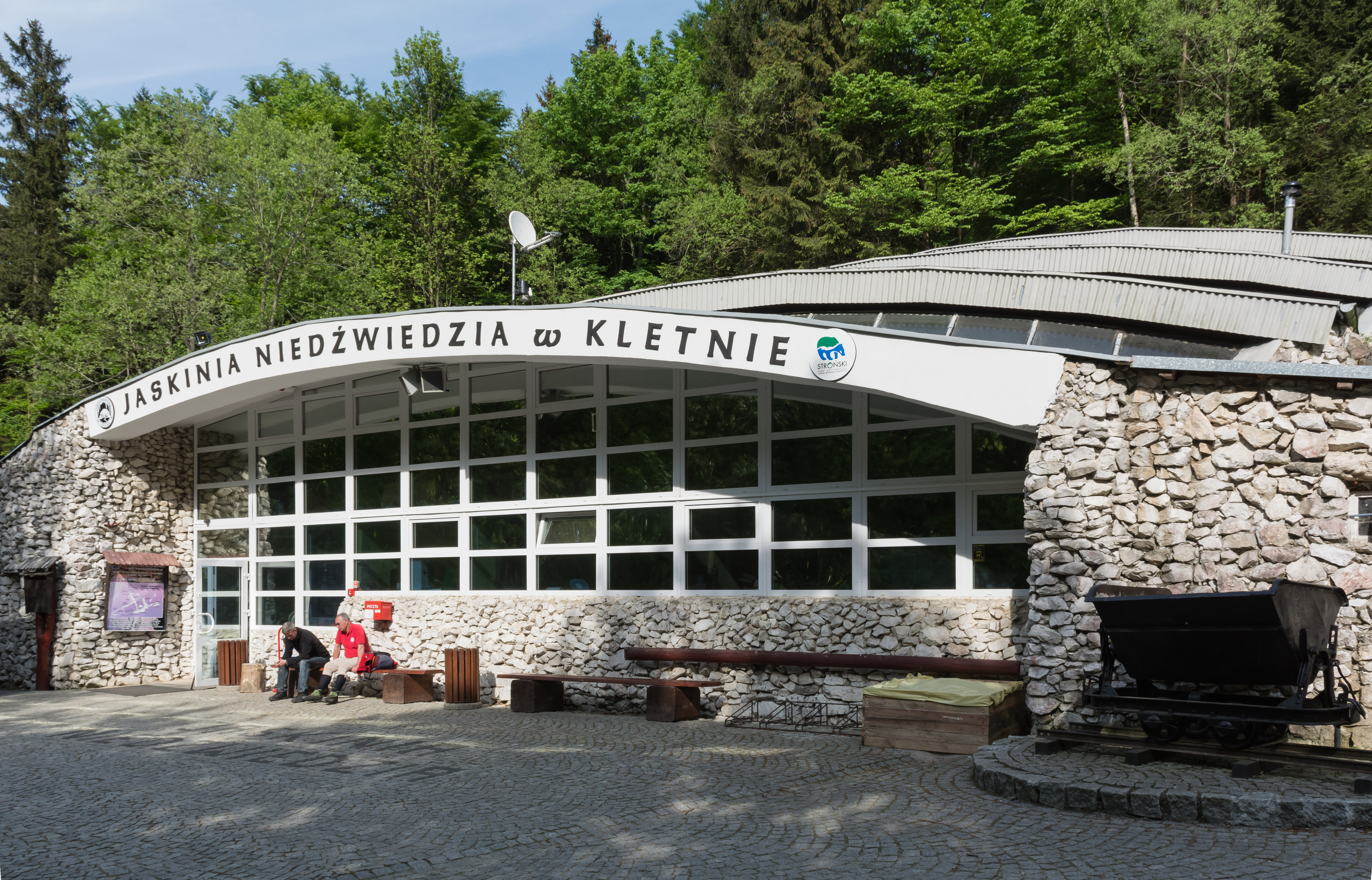 Bear Cave in Kletno, Sudetes, Poland, entrance pavilion This is a photography of Natura 2000 protected area with ID PLH020016